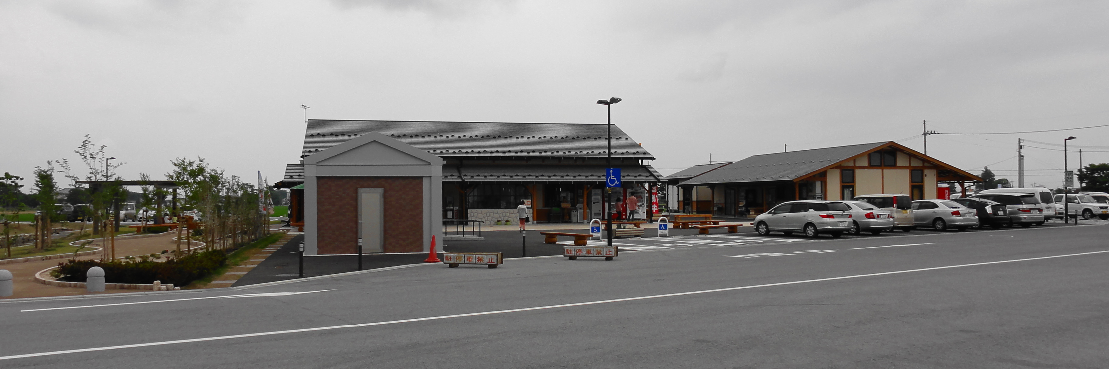 Road to station Seseragi no sato Kōra,Shiga prefecture,Japan